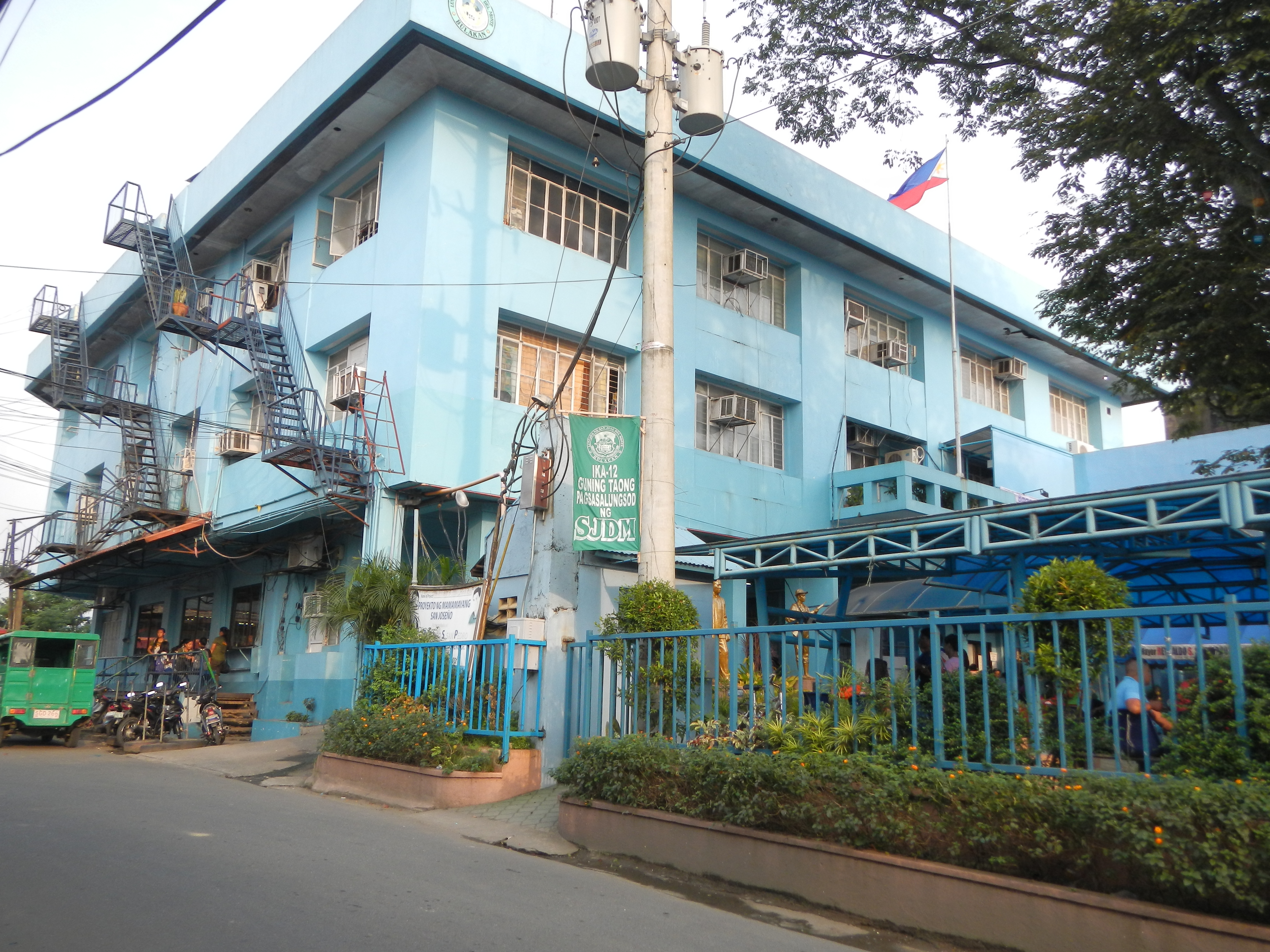 City hall, City of San Jose del Monte (CSJDM)[1][2] [3]